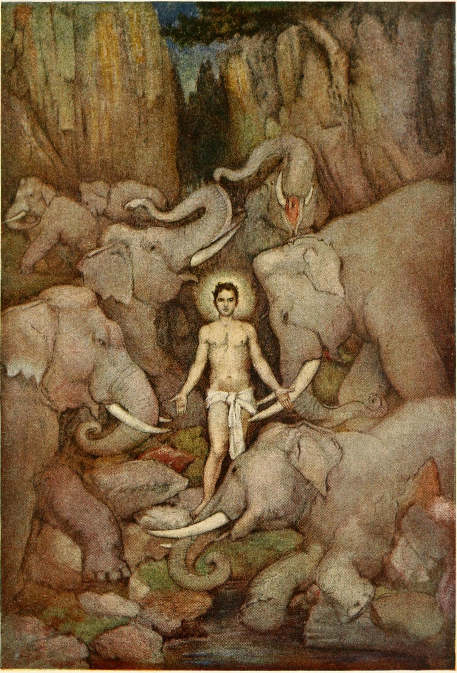 Author: Monro, W. D Publisher: New York : Thomas Y. Crowell Company Possible copyright status: NOT_IN_COPYRIGHT Language: English Call number: 600940 Digitizing sponsor: MSN Book contributor: New York Public Library Collection: newyorkpubliclibrary; iacl; americana Notes: orange pages from unnumbered illustrations.